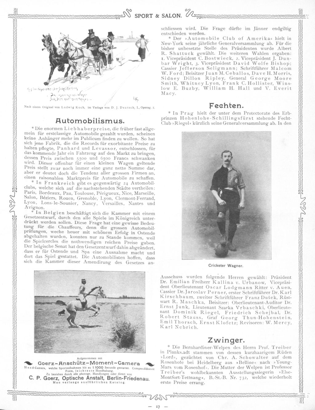 Sport & Salon, weekly Austrian magazine published in Vienna (1888-1918 + 1924). Sports page (1900-01-03)